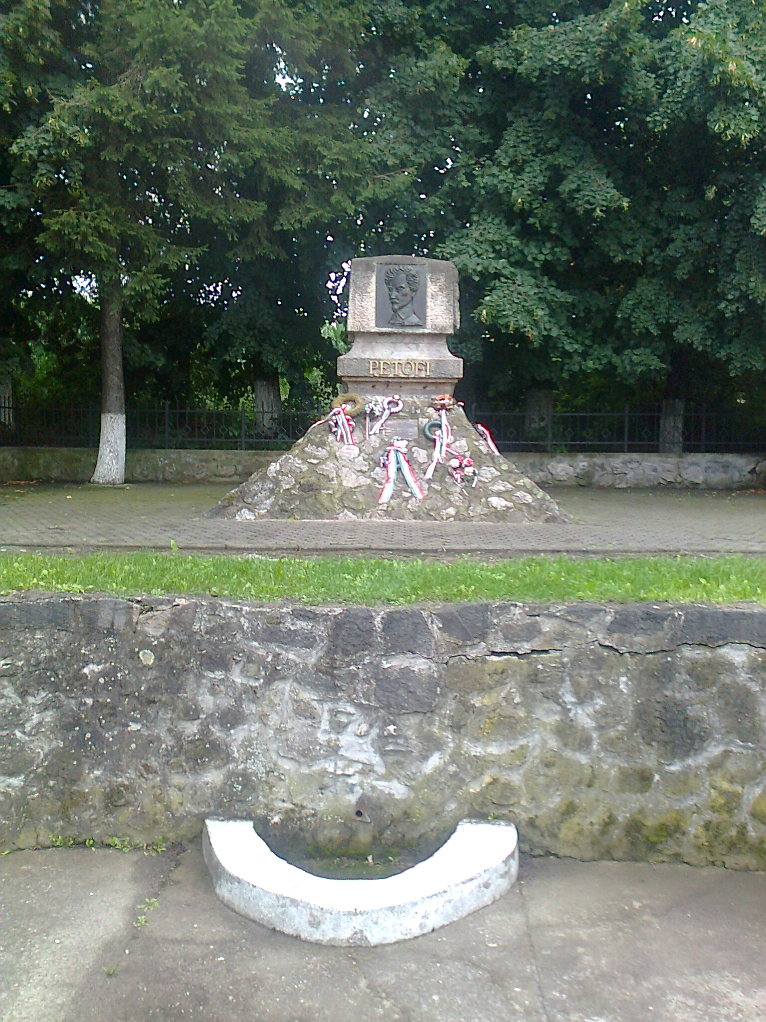 Monument at Petőfi's disappearance site (between Albești and Vănători, Transylvania, Romania)